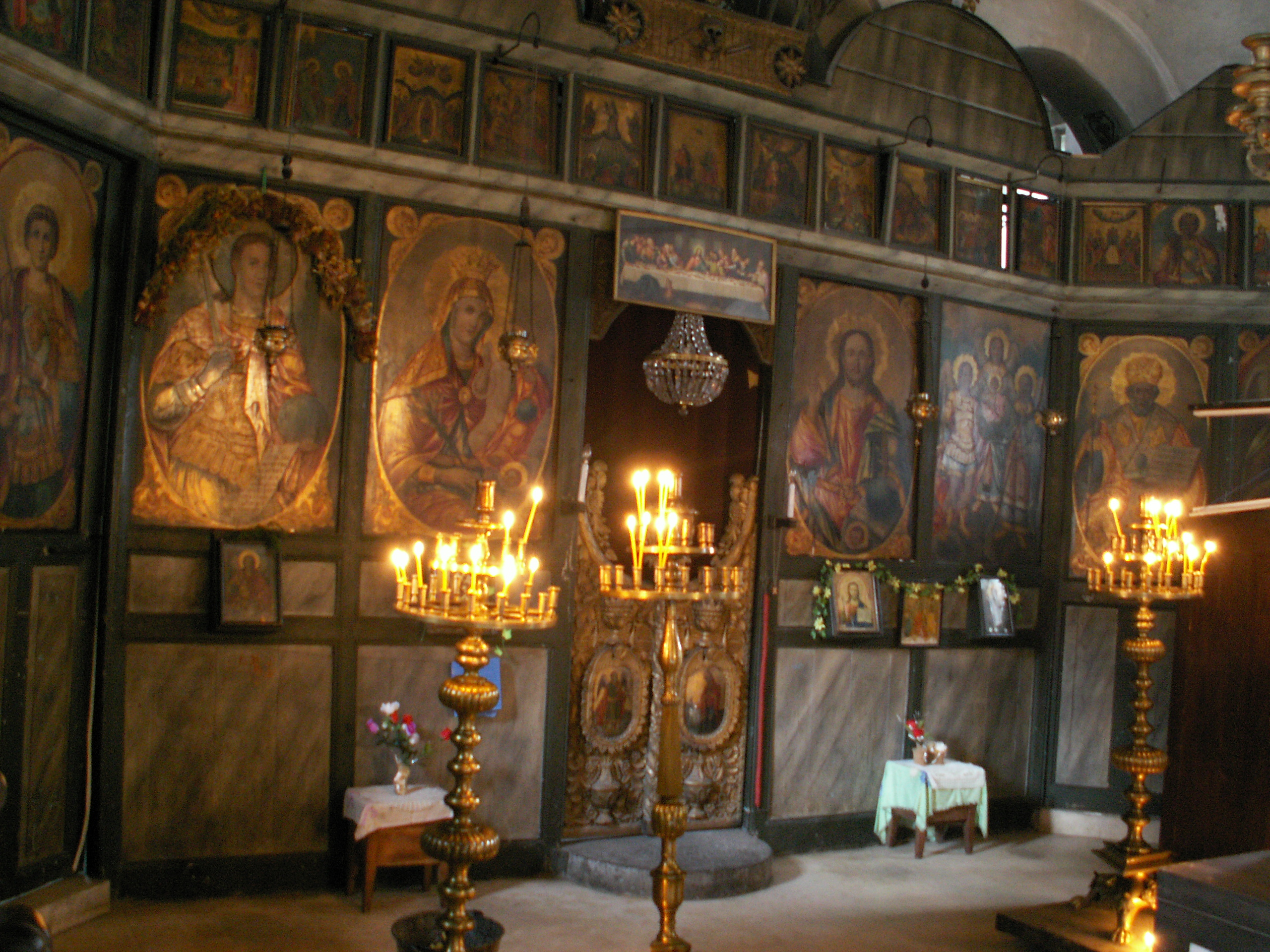 Dryanovo Monastery church interior